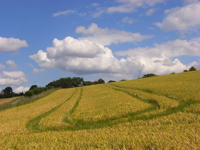 Barley, Cookham. Beside the footpath climbing east towards Cookham Dean.